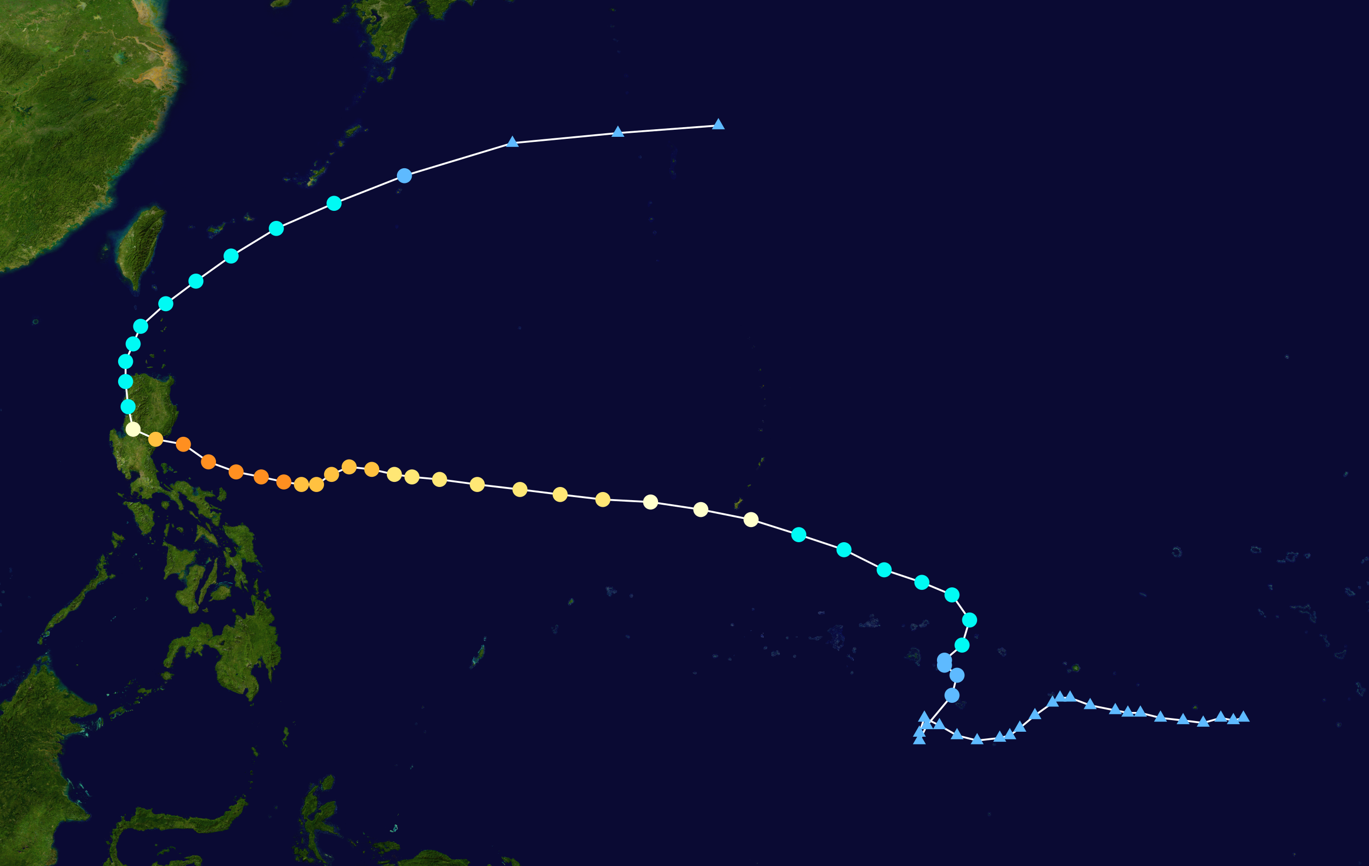 Typhoon Betty 1980 track. Uses the color scheme from the Saffir-Simpson Hurricane Scale.